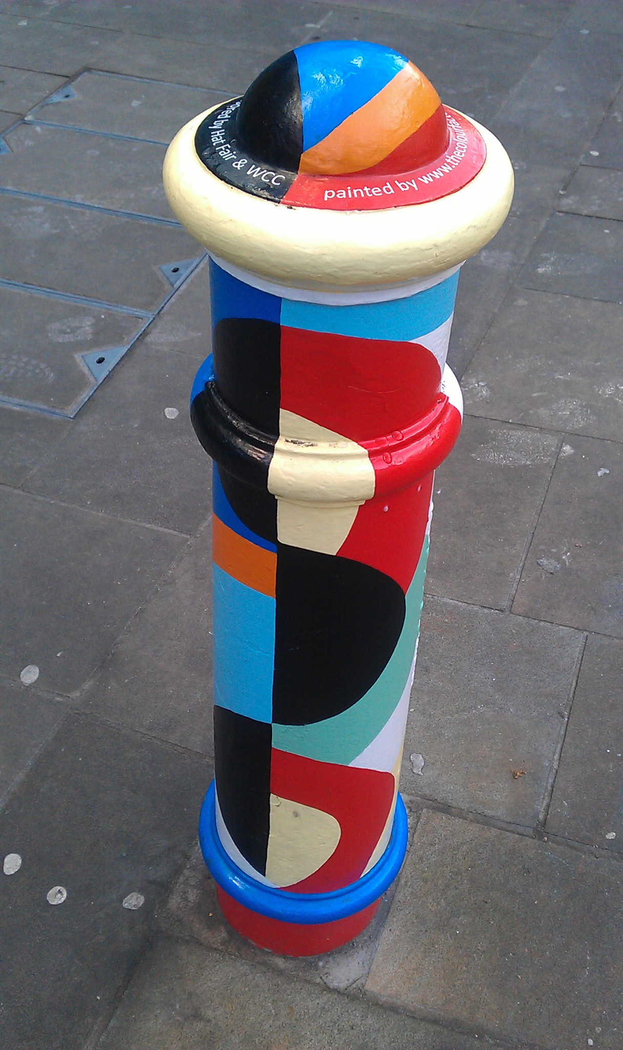 A bollard in Winchester, England, painted in the style of Rhythm Colour by Sonia Delaunay. This is one of a series, on the corner of Great Minster Street and The Square, painted by